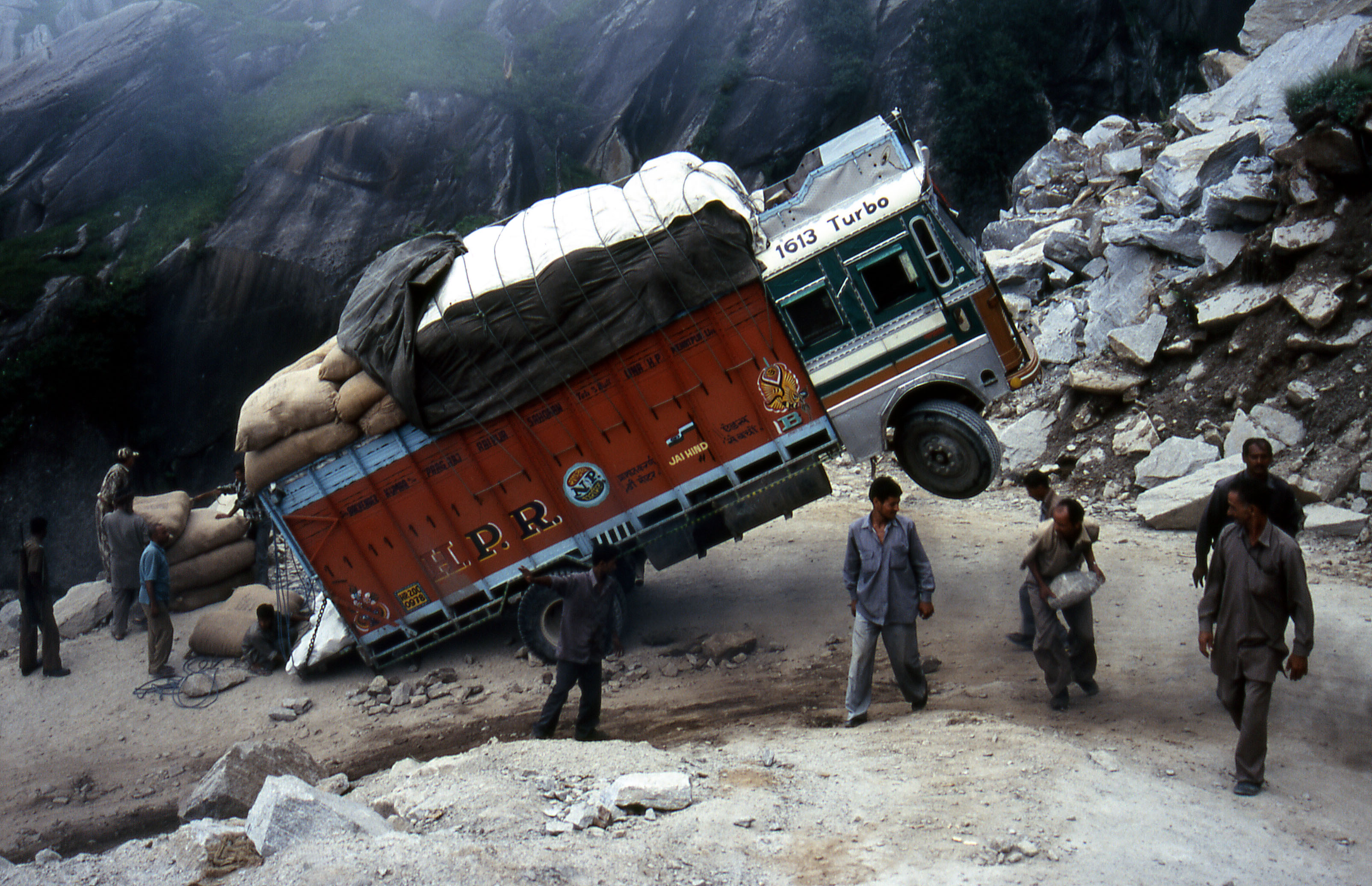 Due to heavy overload there are many accidents on the Manali-Leh-Highway in India